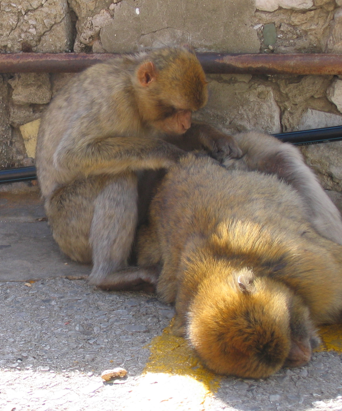 Lousing Apes